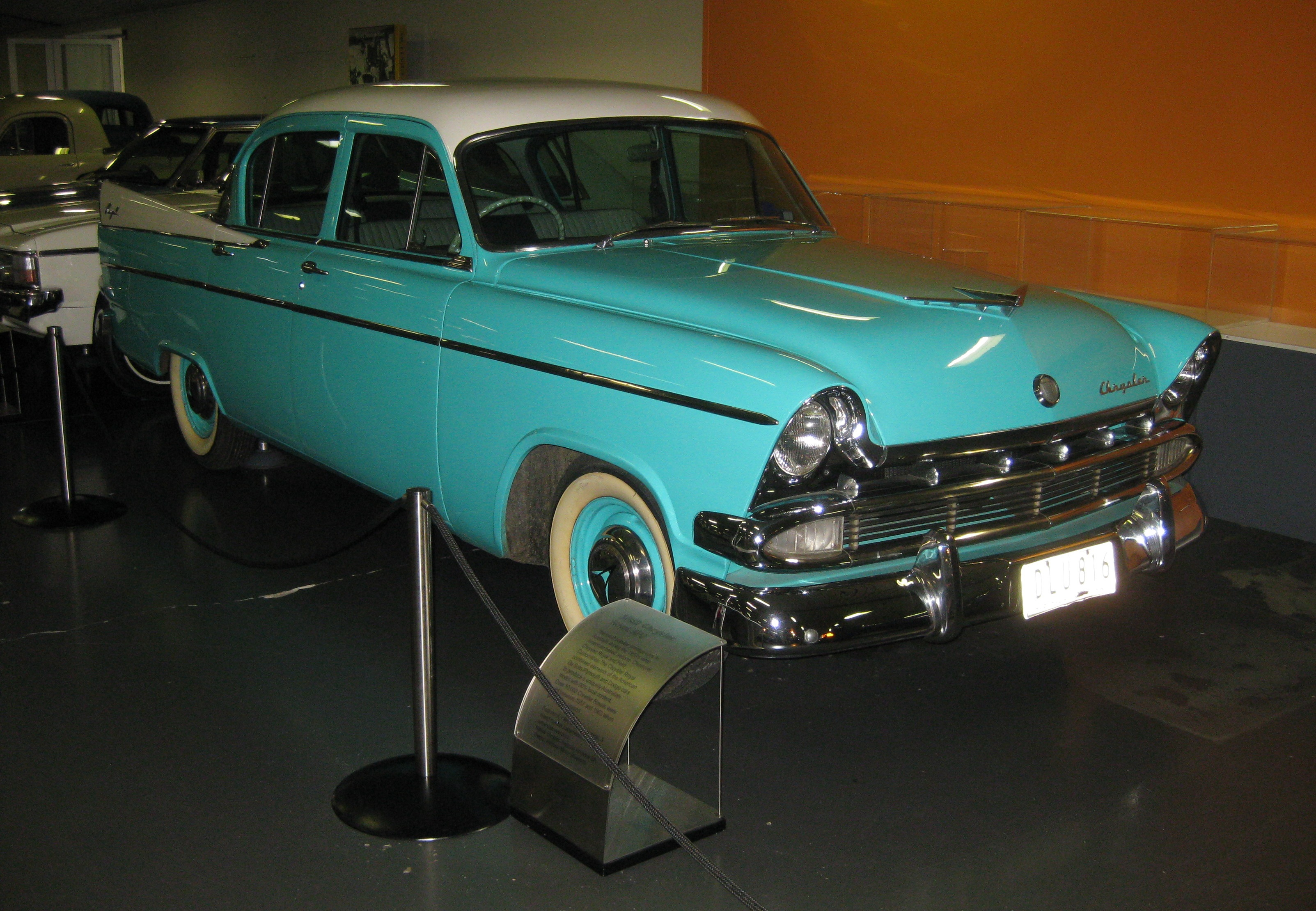 Chrysler AP2 Royal Sedan. The AP2 was built by Chrysler Australia from 1958 to 1960.